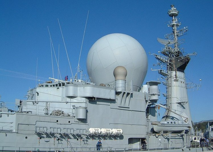 (no responsibility is taken for the correctness of this translation): Frigate Duquesne docked in Toulon (9th of March 2001) Note: According to international classification, Duquesne is a missile destroyer (Suffren class). Clearly visible is her "egshell" radar cover.